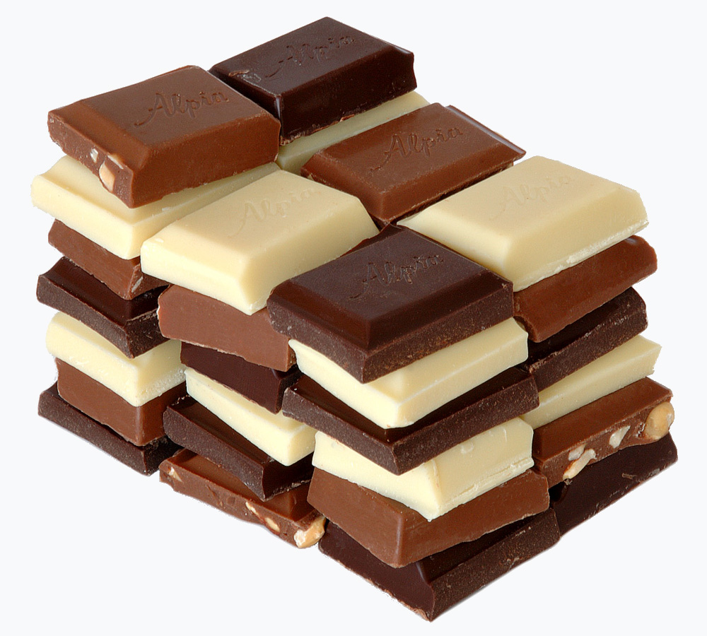 Chocolates on a blue background (#f8f9fa)